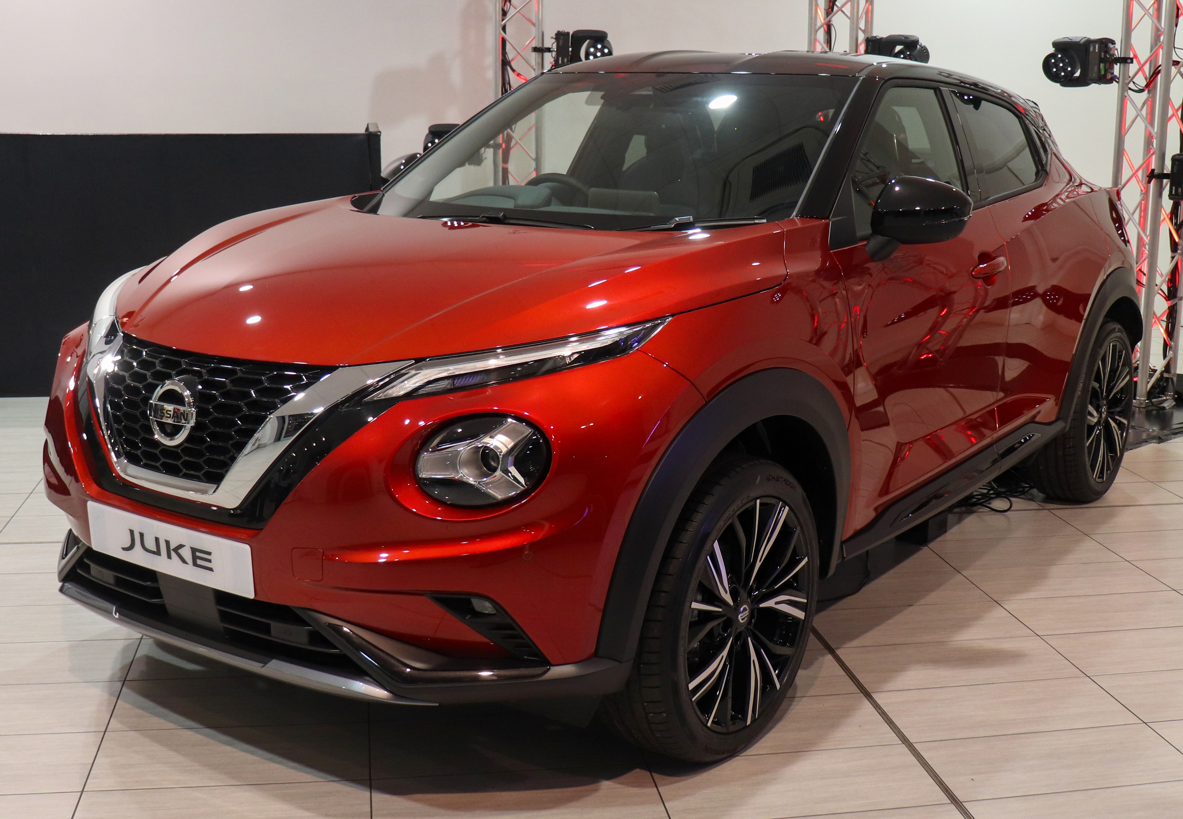 2019 Nissan Juke Tekna+ 1.0 Front in Fuji Sunset Red with Pearl Black Roof and door mirrors Taken at the VIP Preview at Arbury Nissan Leamington Spa